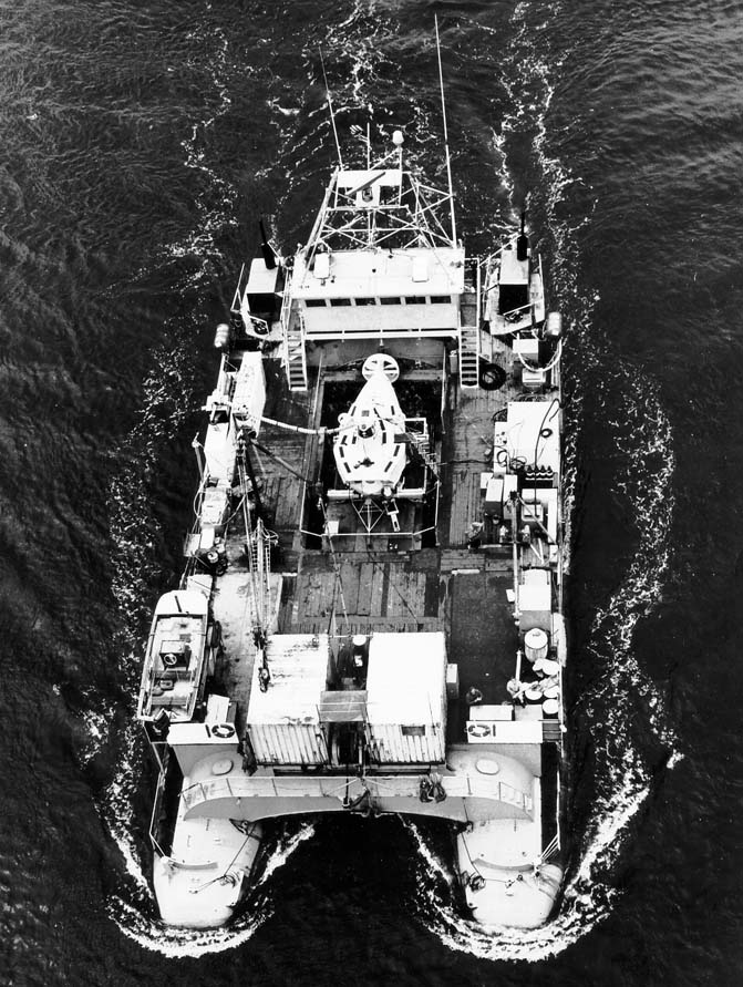 Alvin (DSV-2) aboard its support ship R/V Lulu